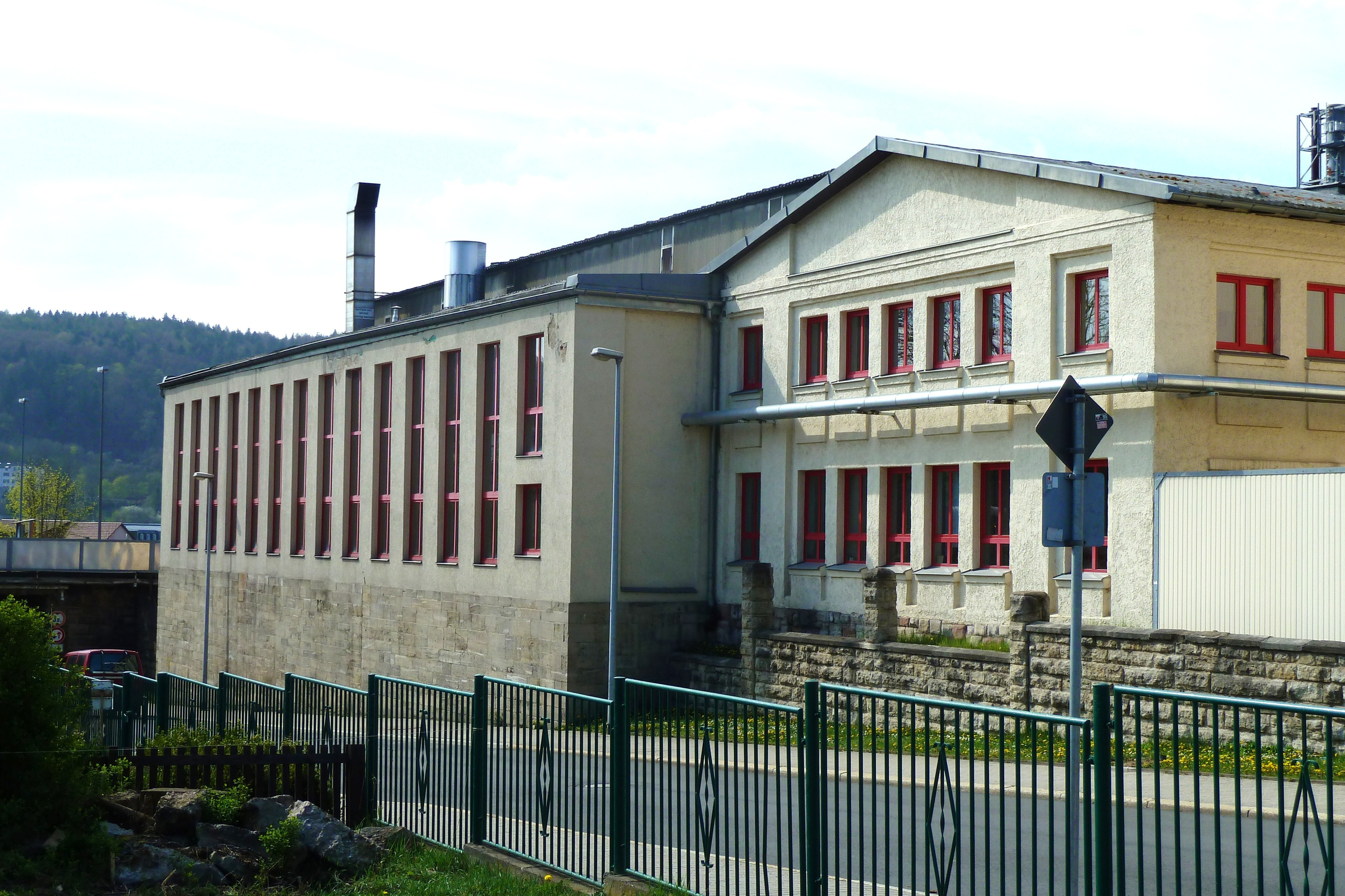 Buildings of Meiningen Steam Locomotive Works